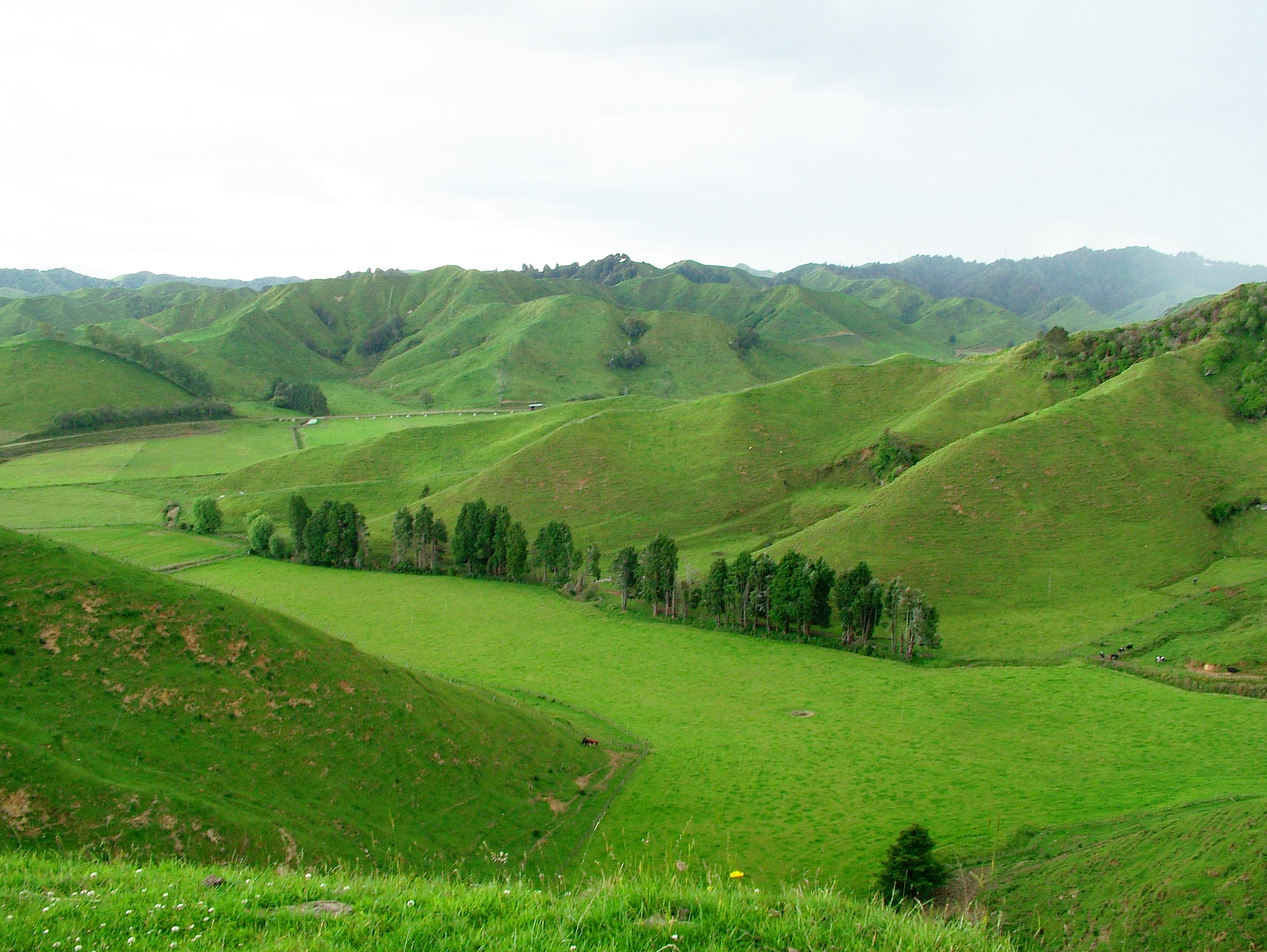 Eroded hills in the Taranaki Region, New Zealand.